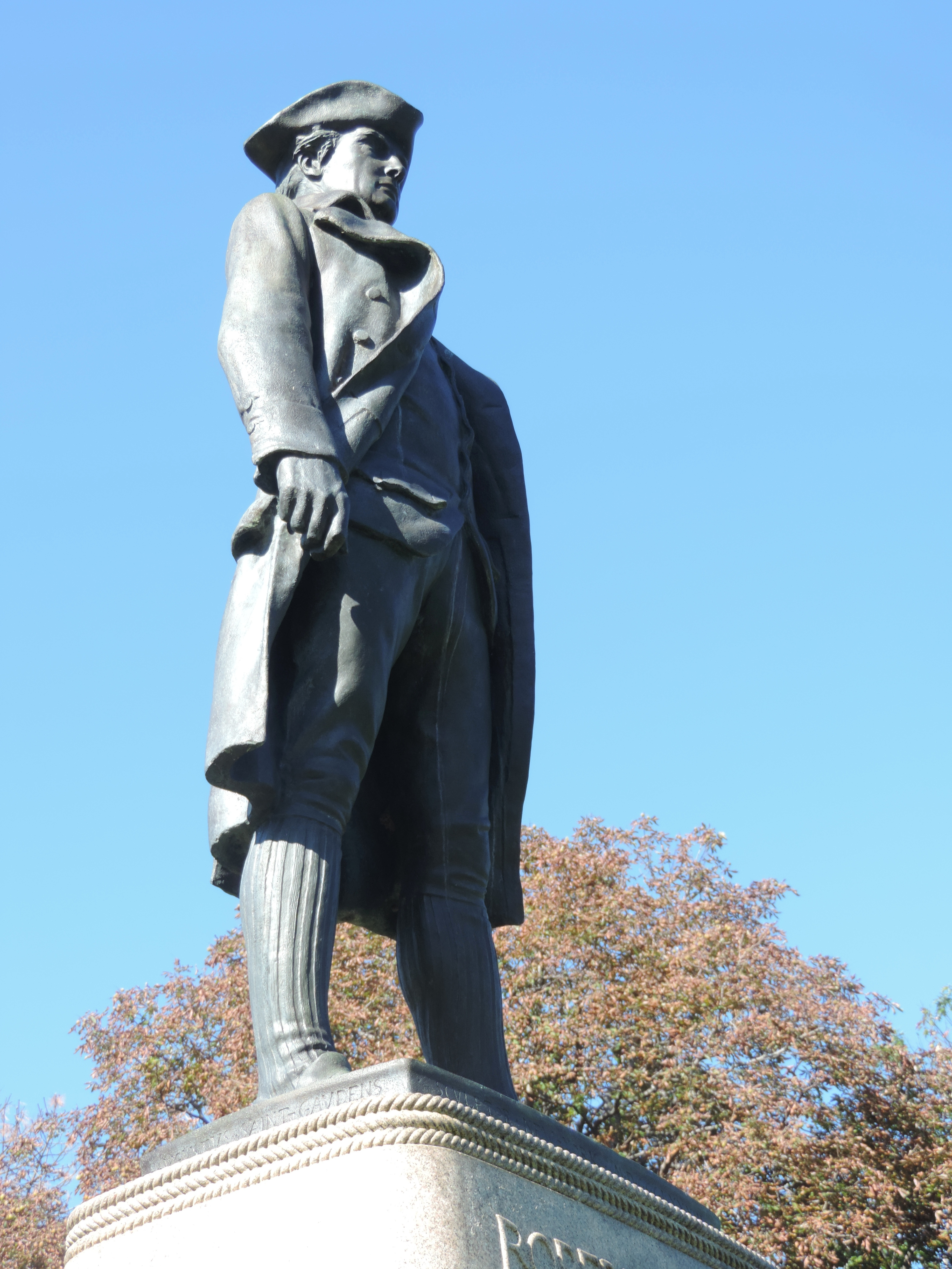 Looking west and up at Randall statue, late on a sunny morning. A cast of the Augustus Saint-Gaudens original.